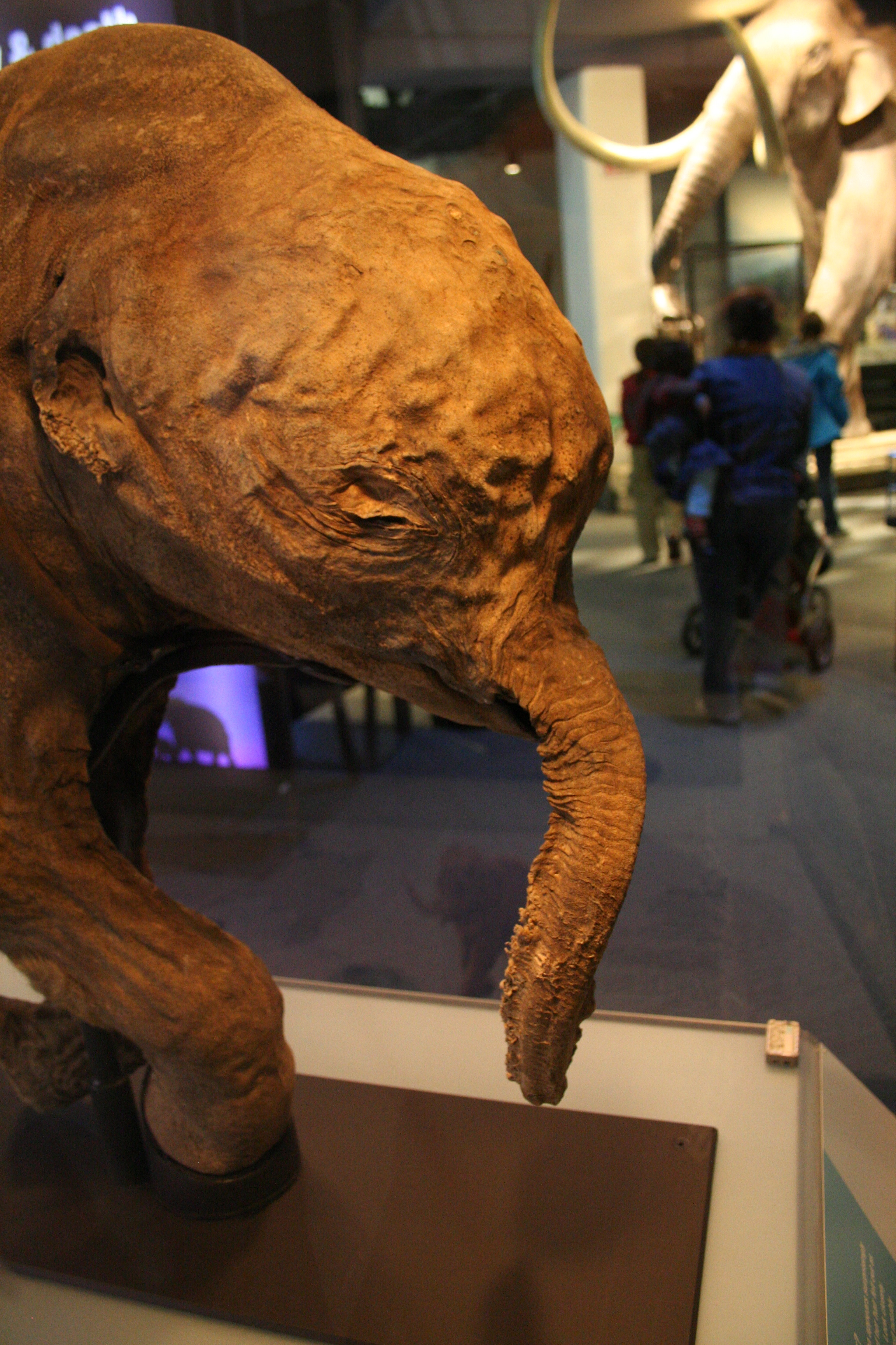 This is a photo of baby mammoth Lyuba at the "Mammoths and Mastodons: Titans of the Ice Age" exhibition at the Liberty Science Center in Jersey City, New Jersey on November 10th 2010. Photo by Erik LeCar